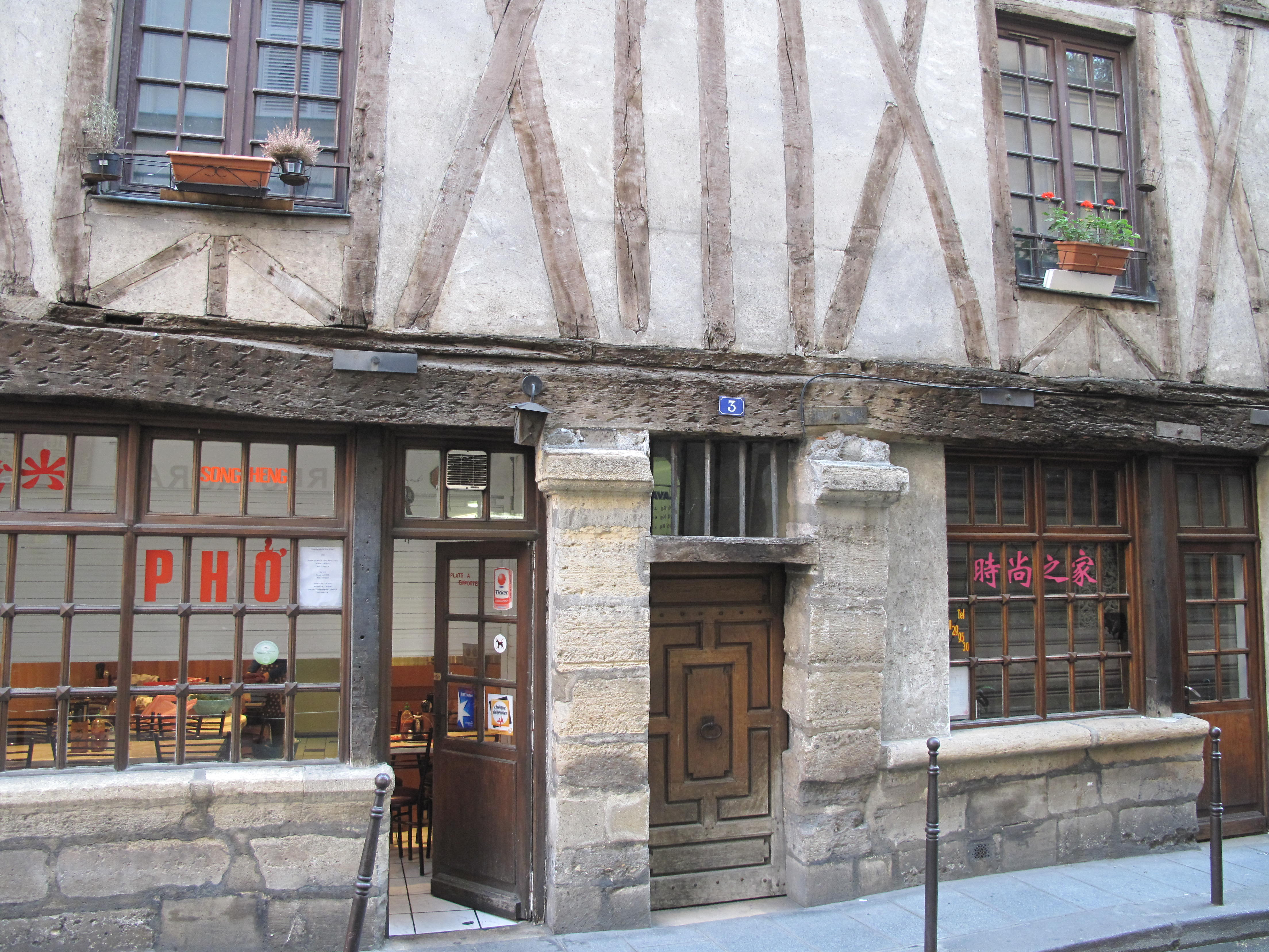 Medieval-looking house, 3 rue Volta, Paris 3rd arrond.